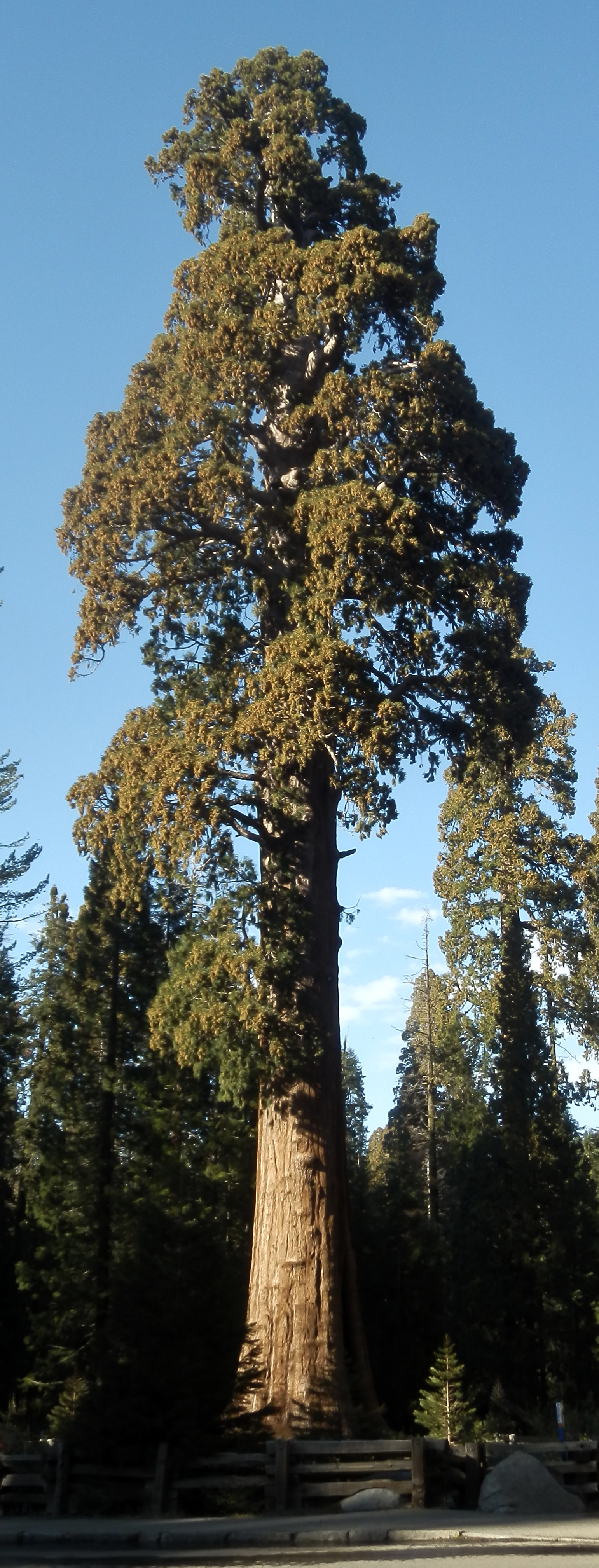 Sentinel Tree